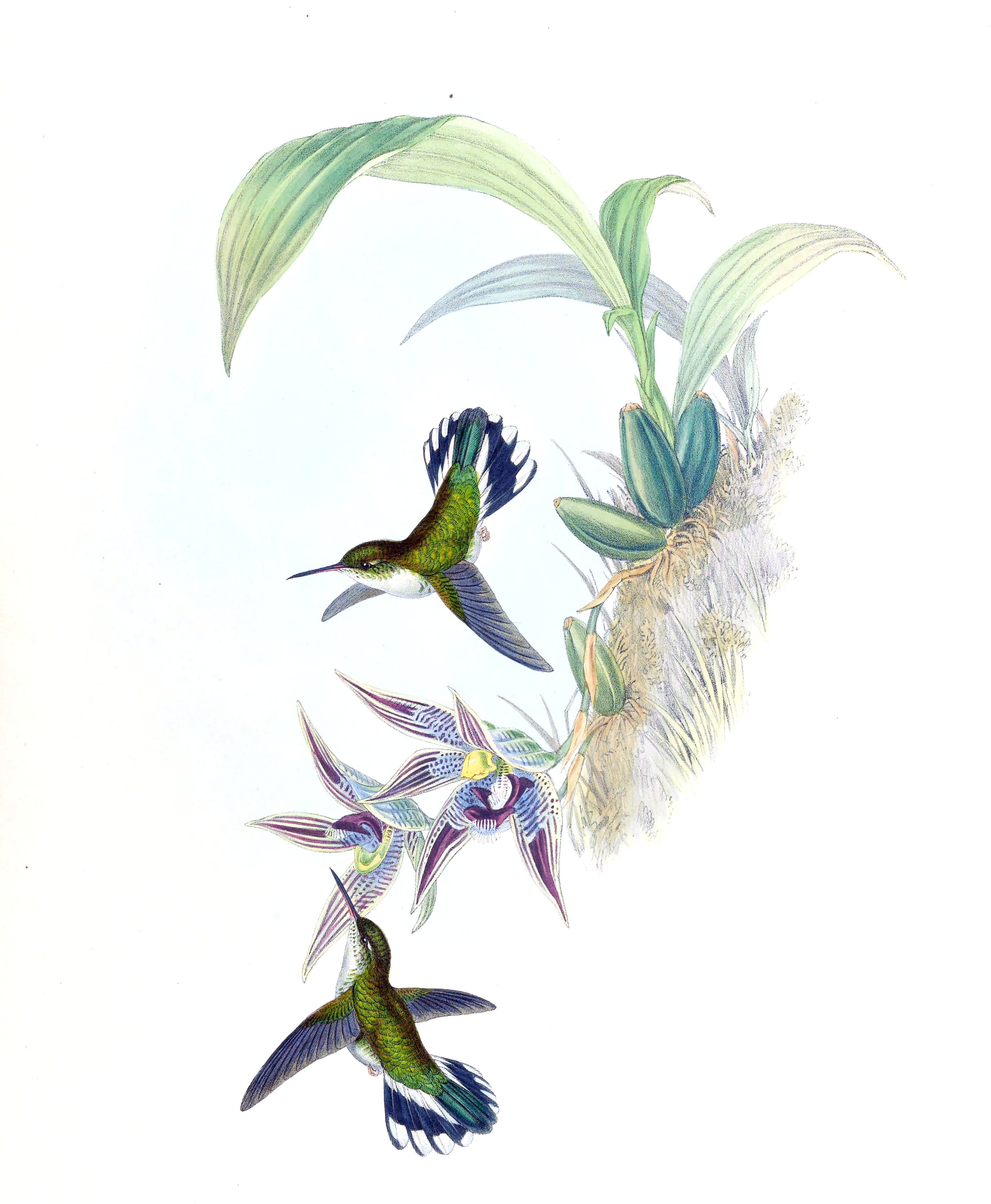 Illustration of Phlogophilus hemileucurus on Paphinia cristata (orchid)